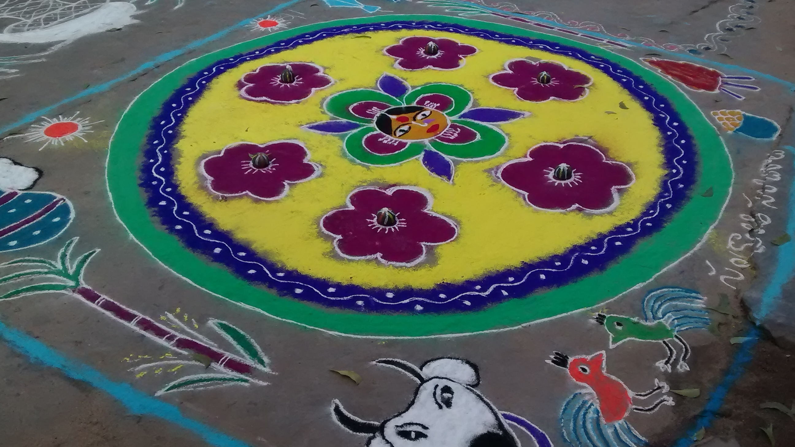 sankranthi muggu in gunturu